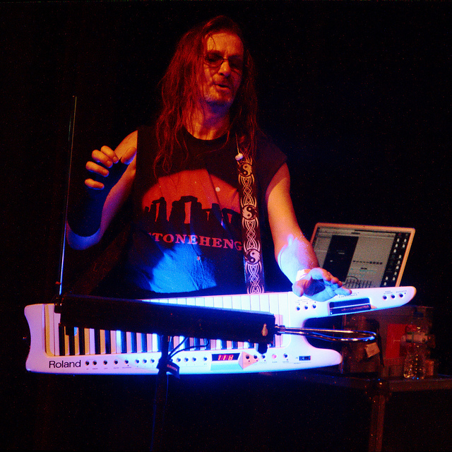 Tim Blake at Hawkeaster 2013